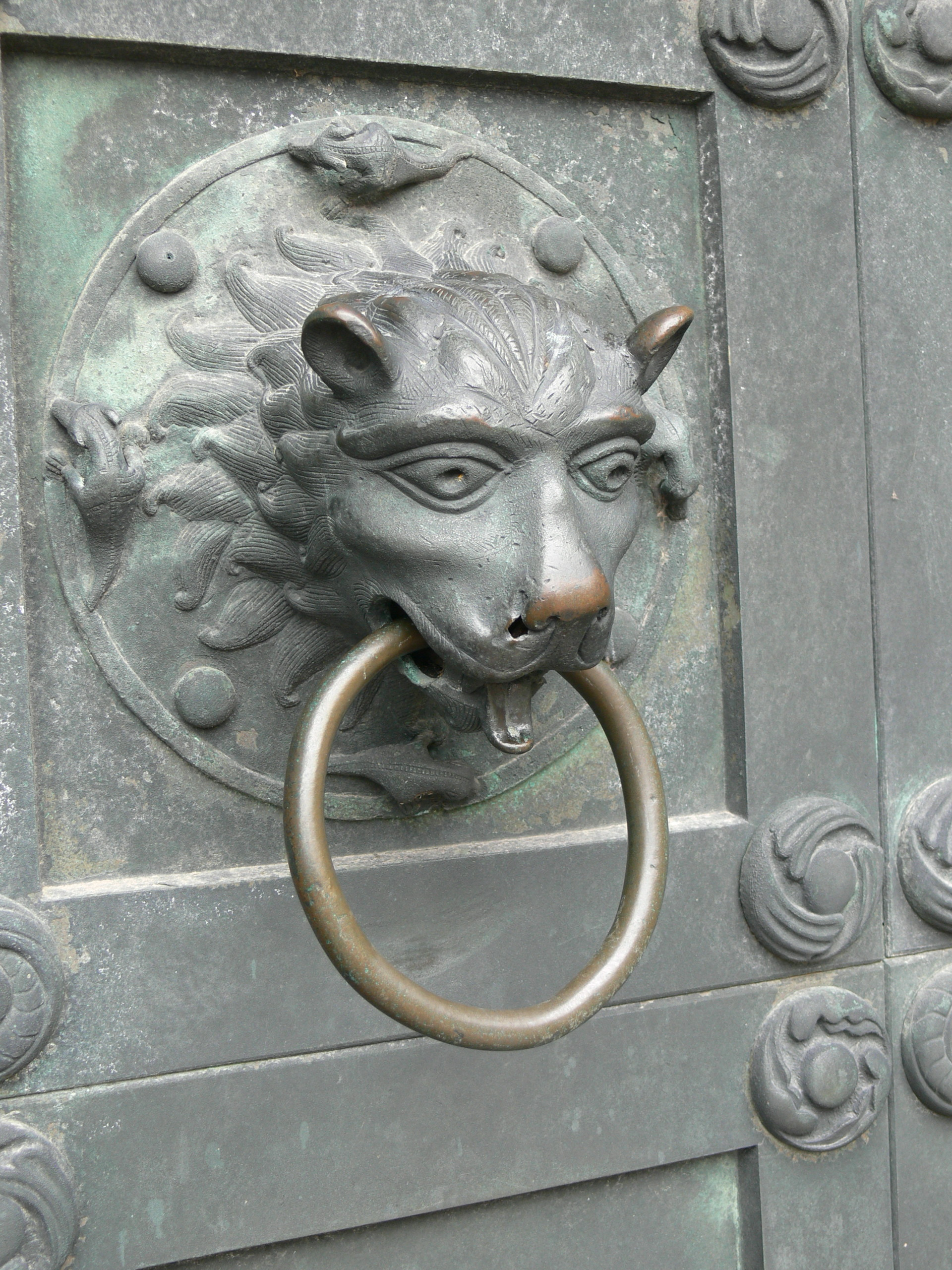 Ribe Cathedral. "Cat´s head portal": Doorknocker in form of a lion´s head ( 1225 )